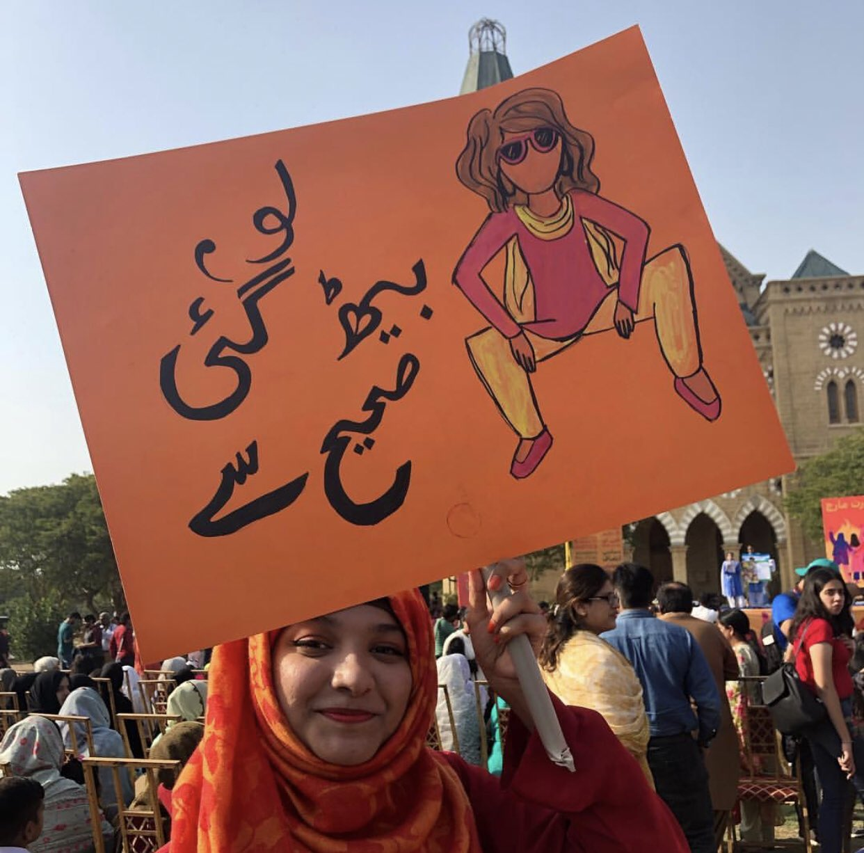 Placards displayed by Marchers during Aurat March 2019